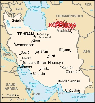 Map of Iran, from CIA World Factbook :Same image, with Persian text, in Image:Iran map-FA.png :Same image, with German text, in Image:Iran map-DE.png :Same image, with French text, in Image:Iran_map-fr.png